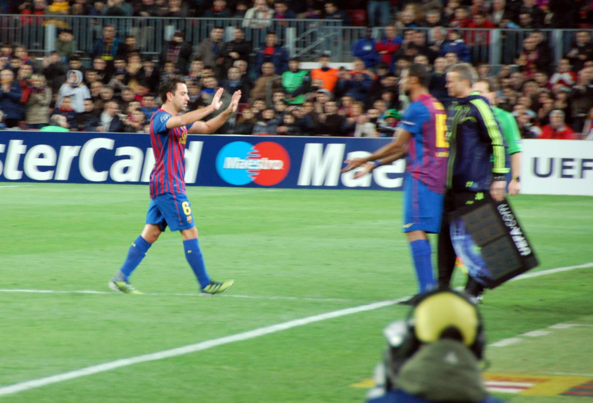 FC Barcelona - Bayer 04 Leverkusen, 1/8 Final UEFA Champions League, Season 2011/2012